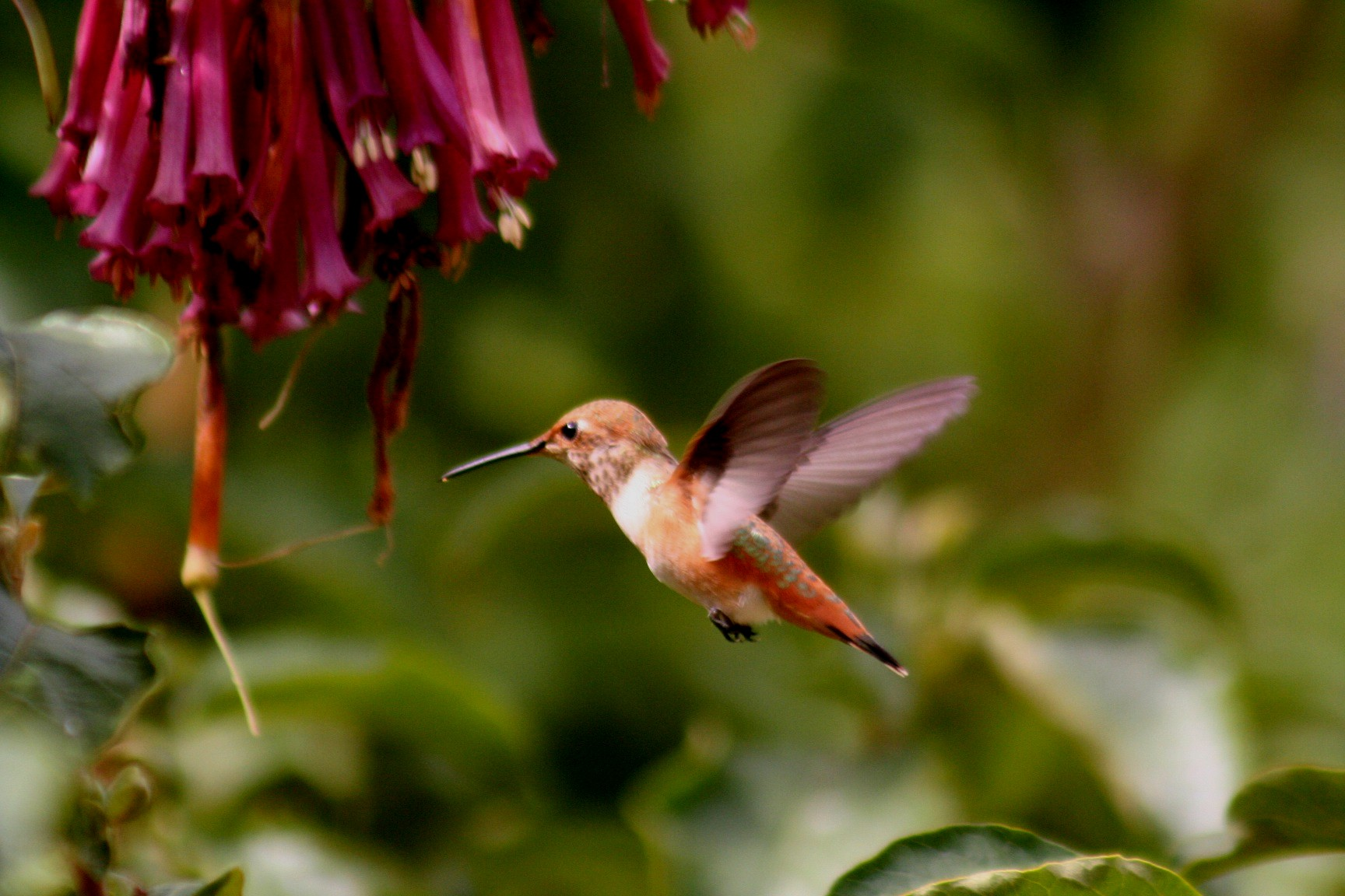 A hummingbird and his flowers. The image was taken in San Francisco